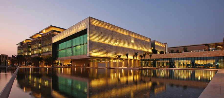 KAUST Night View